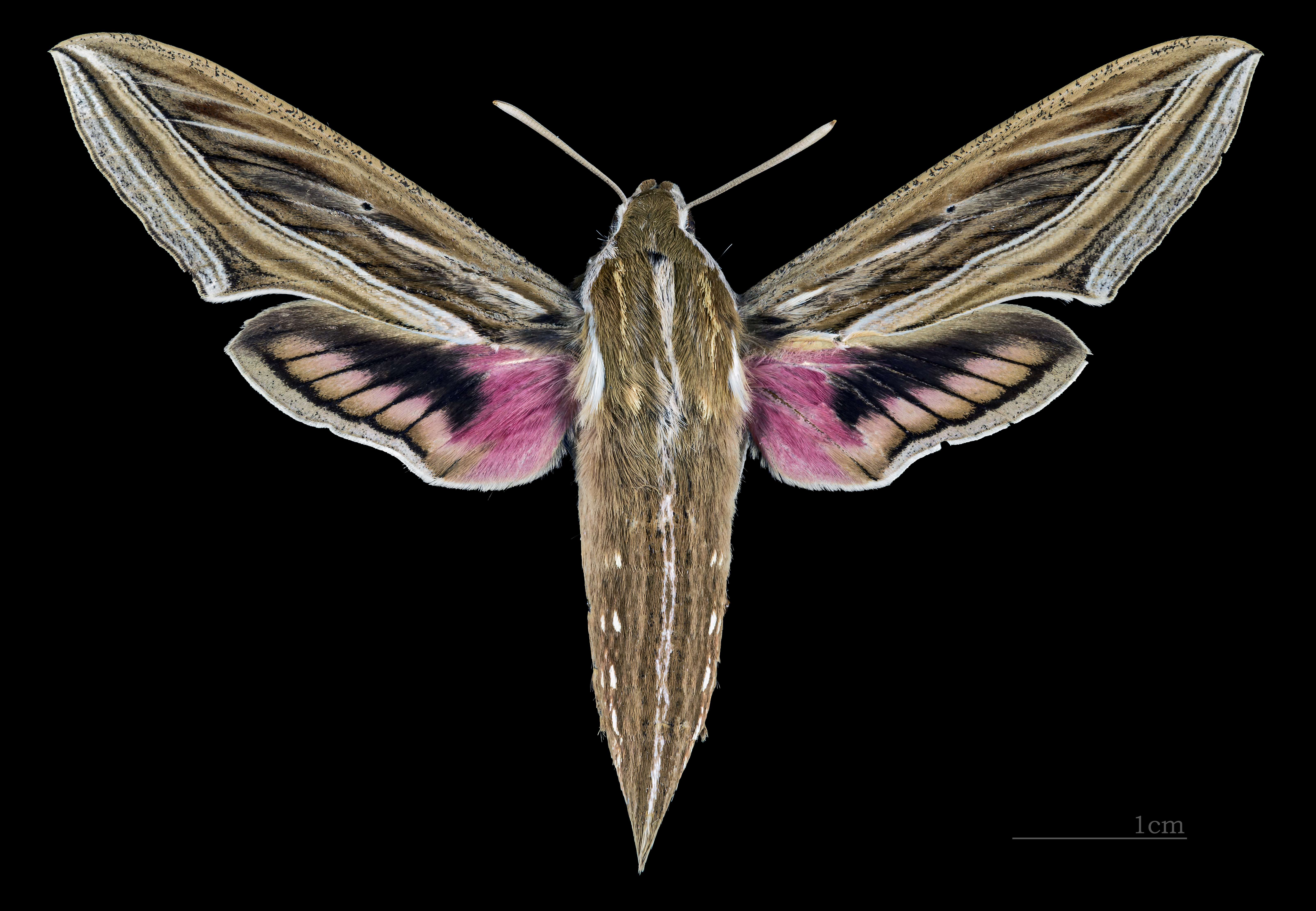 Vine Hawk-Moth - Dorsal side Collection of the Mathematician Laurent Schwartz